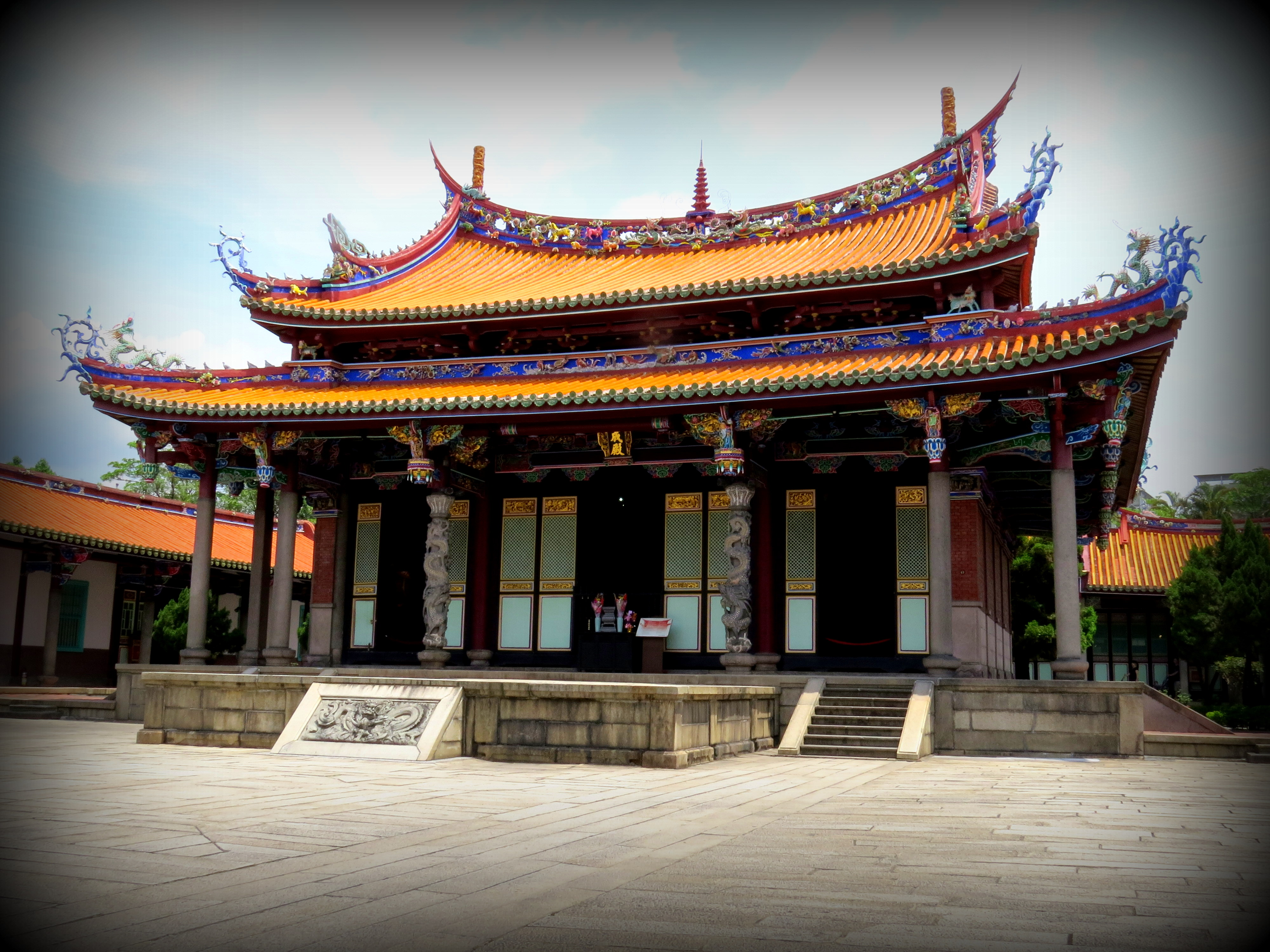 Great Hall, the Temple of Confucius, Taipei city.